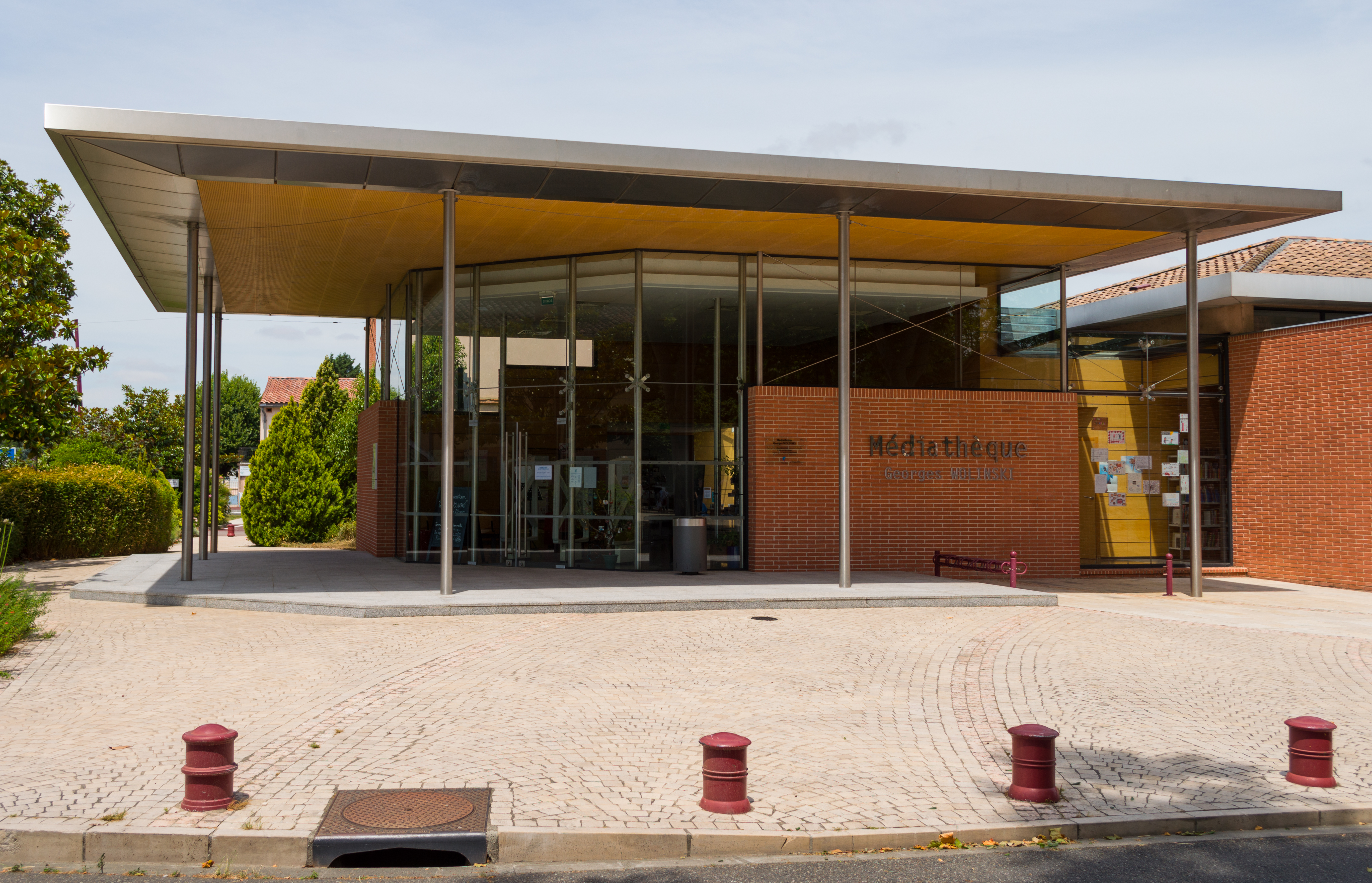 The media library Georges Wolinski in Fenouillet, the day it was named.